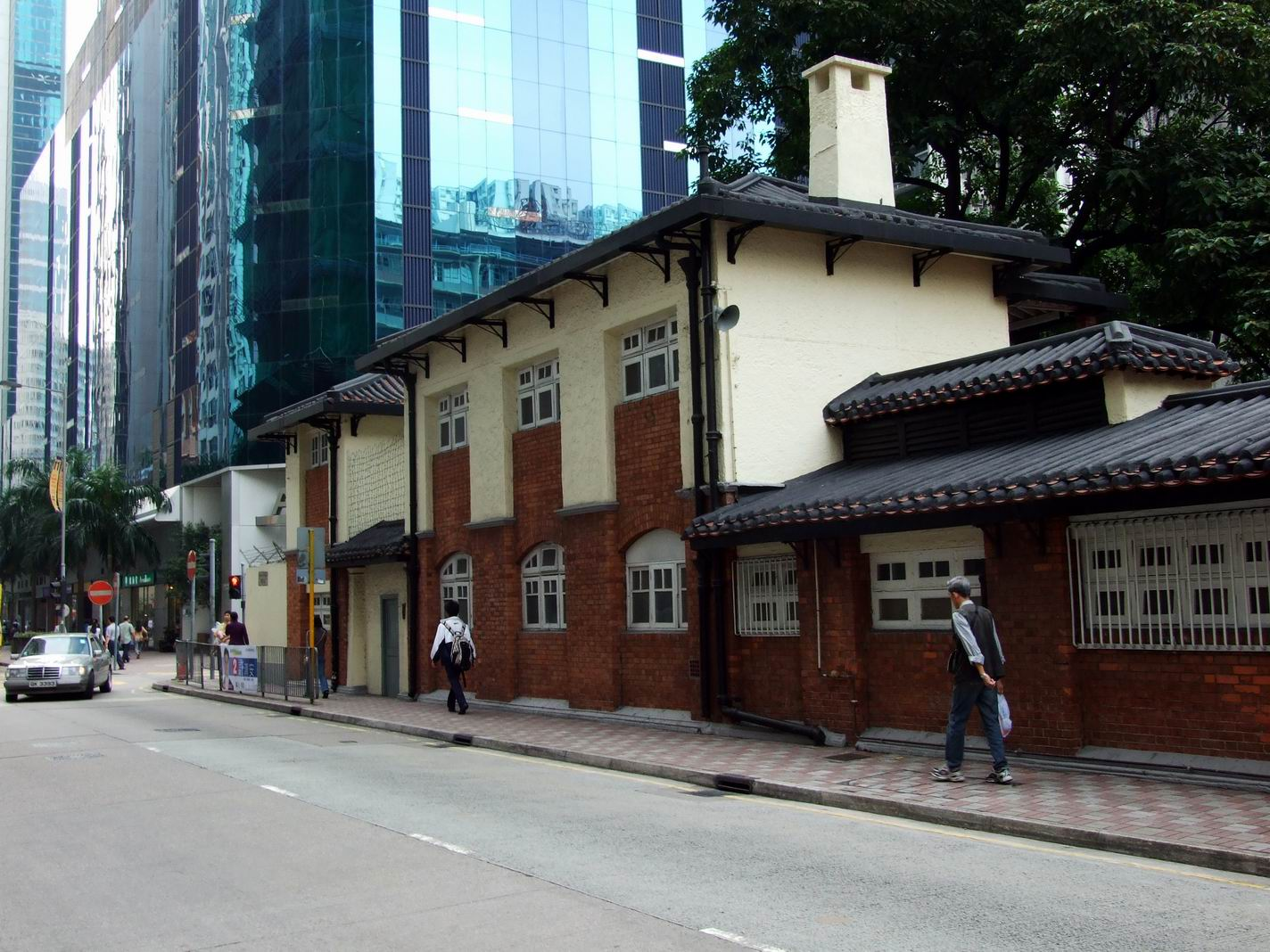 前香港皇家遊艇會會所. Former Royal Hong Kong Yacht Club clubhouse at Oil Street / Electric Road